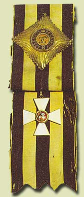 Suvorov`s decoration St. Georg